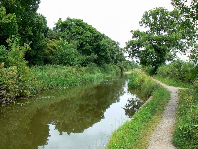 Wilts and Berks canal, Wootton Bassett (1) The canal was opened in 1810. It is the subject of a restoration project. This is the website of the charity managing it